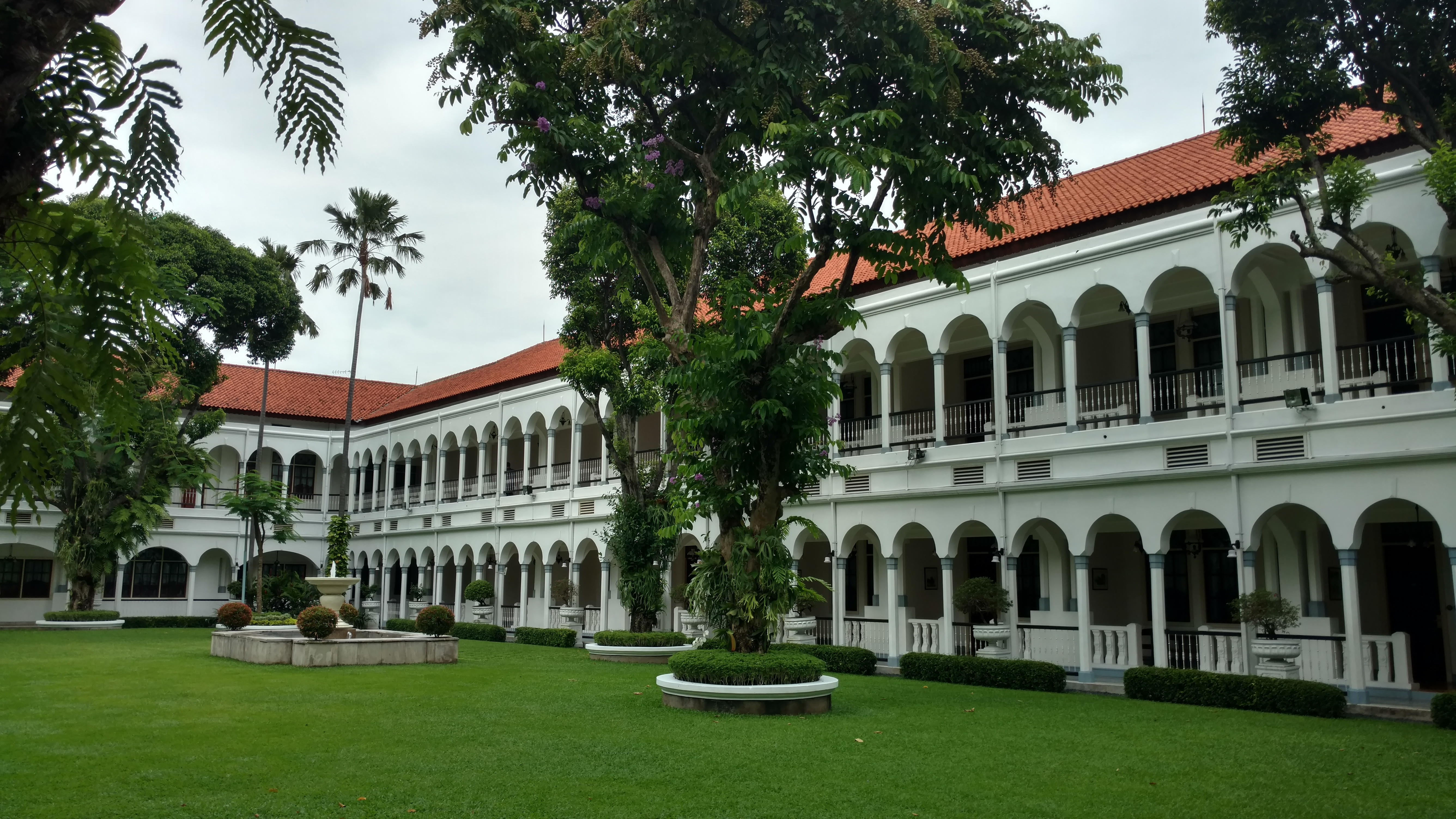 2016 Majapahit hotel